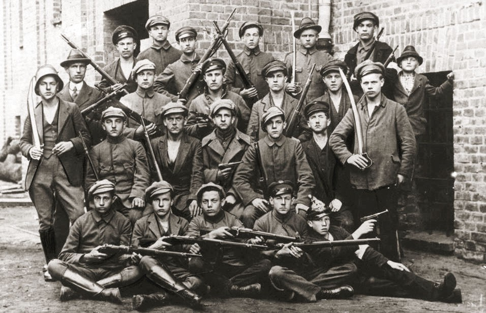 Polish insurgents during third Silesian uprising 1921